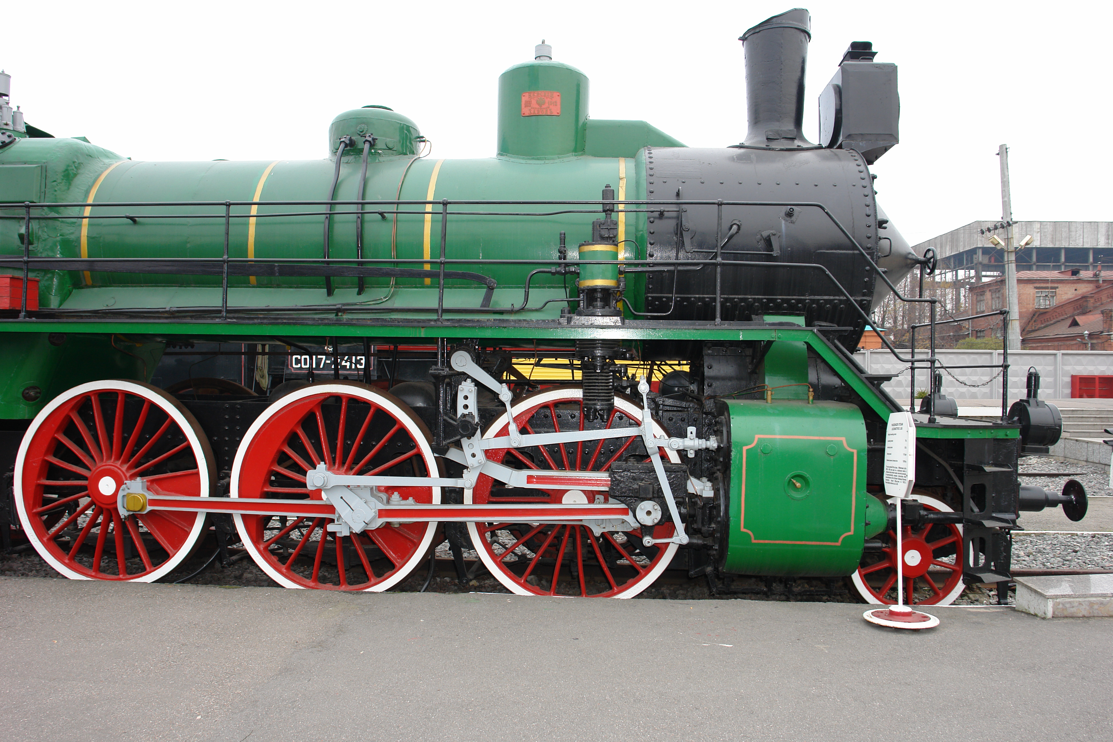 Passenger steam locomotive S.68 Weight in working order:excluding tender76t.including tender120t.Design speed115 kphMaximum power at wheel rim1300 hp The sole survivor of this class. Withdrawn by the MPS in 1960 and used as a stationary boiler at a Moscow factory which made concrete products. , An unprecedentedly complex restoration effort was undertaken at the October Railways Khovrino locomotive depot (Moscow) in 1982-3. ^ It was initially restored as S-245